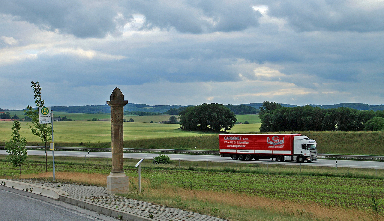 Nentmannsdorf: electoral saxonian postmile-stone from 1729 on the old post-route from Dresden to Prague.